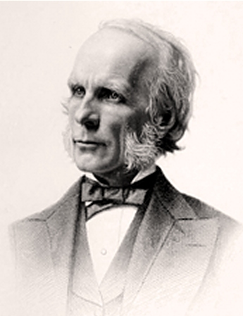 Photo of William Greenough Thayer Shedd (1820–1894), an American Presbyterian theologian.